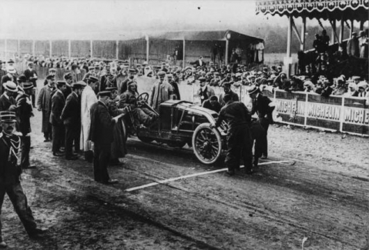 1906 French Grand Prix starting grid